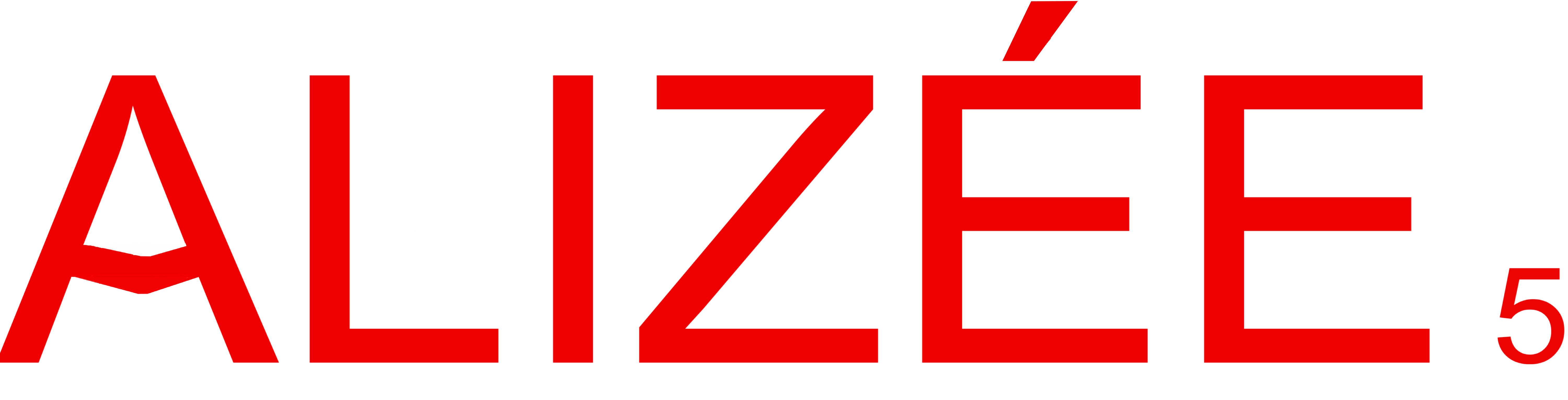 Covert for Alizée's album 5 done with inskape